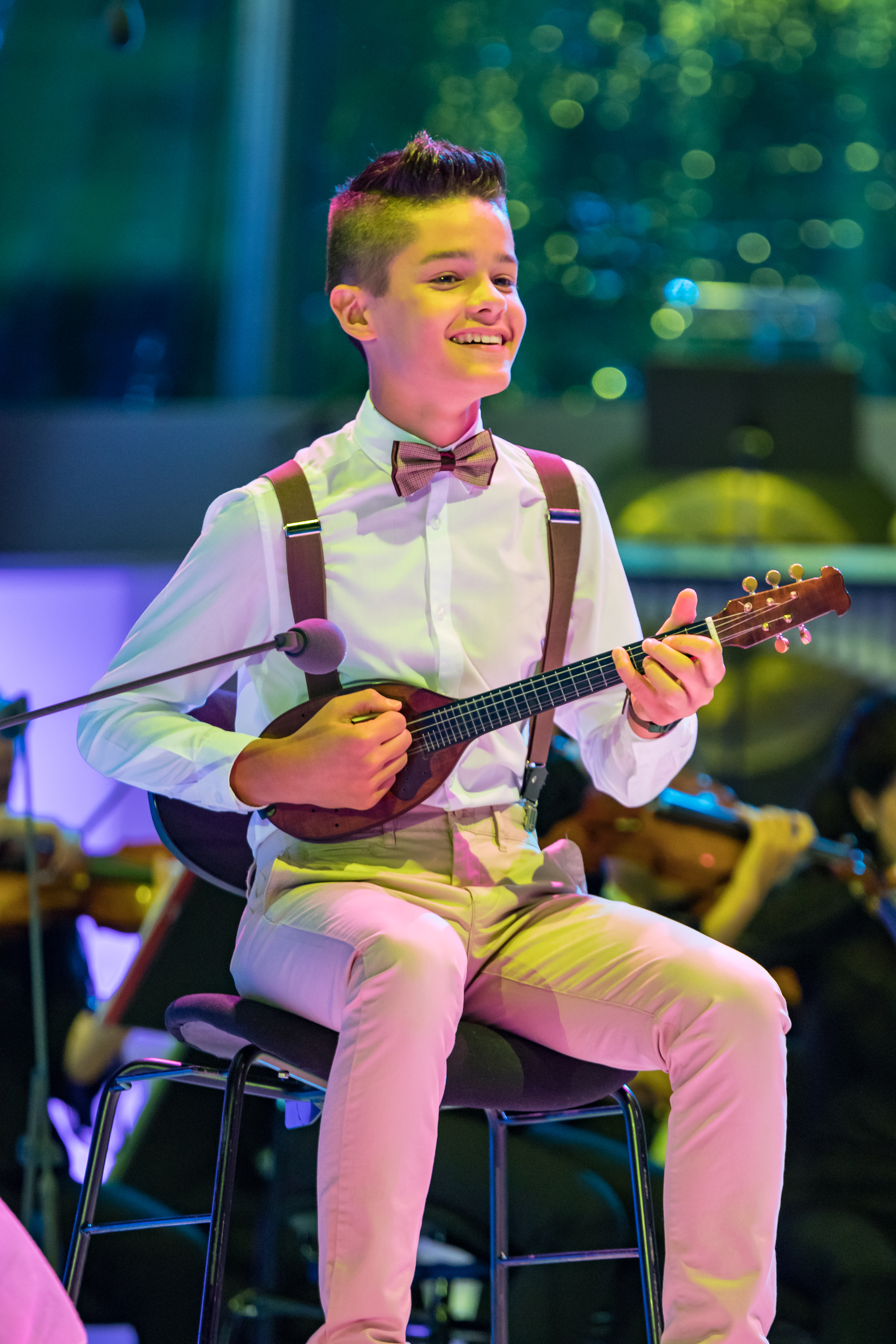 Eurovision Young Musicians 2016 in Cologne, Rehearsal on September 2nd 2016: Marko Martinović